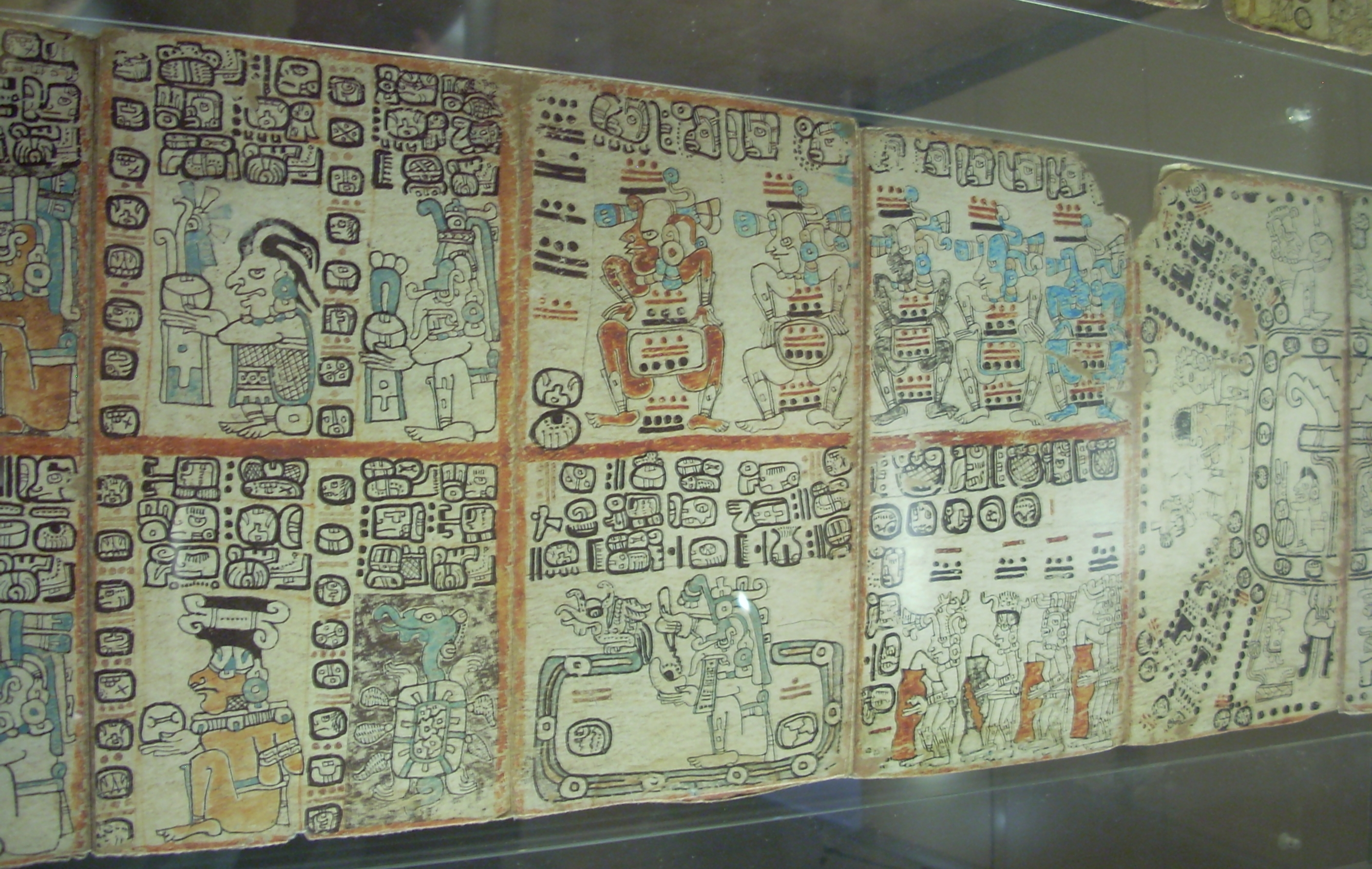 Madrid Codex (replica) in the Museum of the Americas, Madrid. Late Postclassic Maya book.